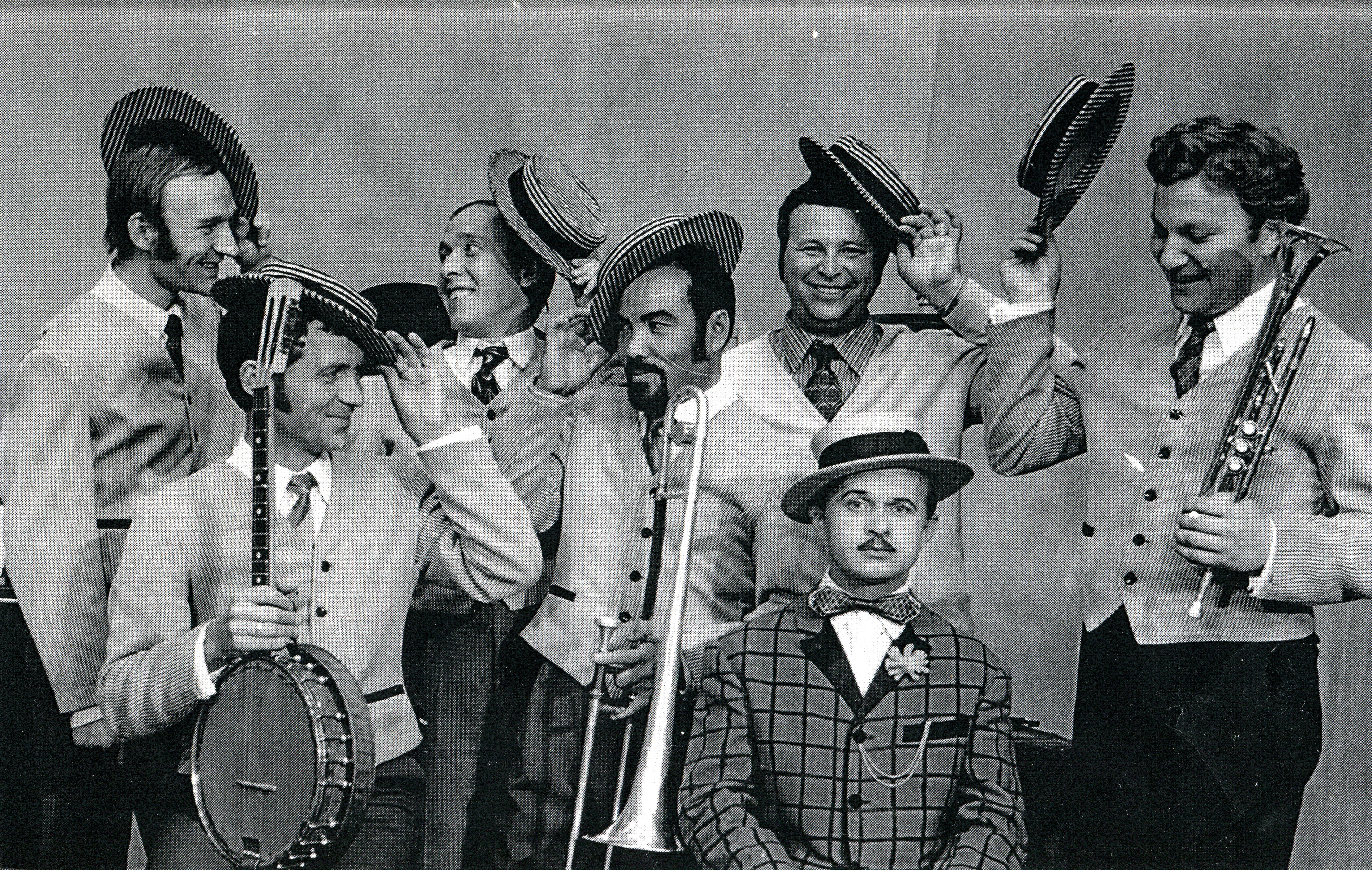 Soviet jazz ensemble "Uralskiy dixieland", Chelyabinsk Philarmonic, 1970s